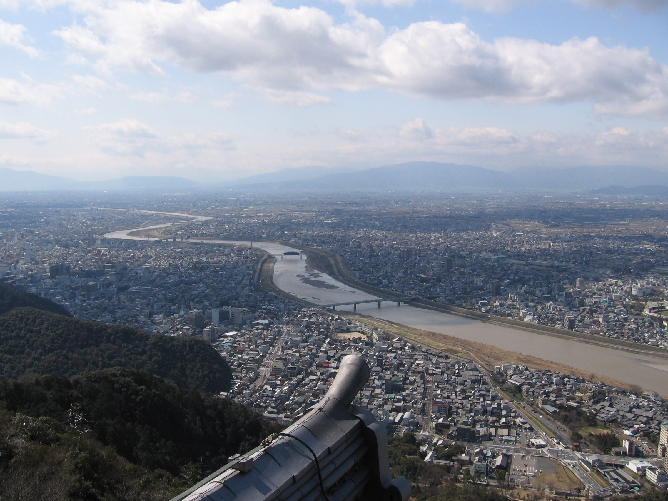 I took this picture from the top of Gifu Castle in March of 2006.